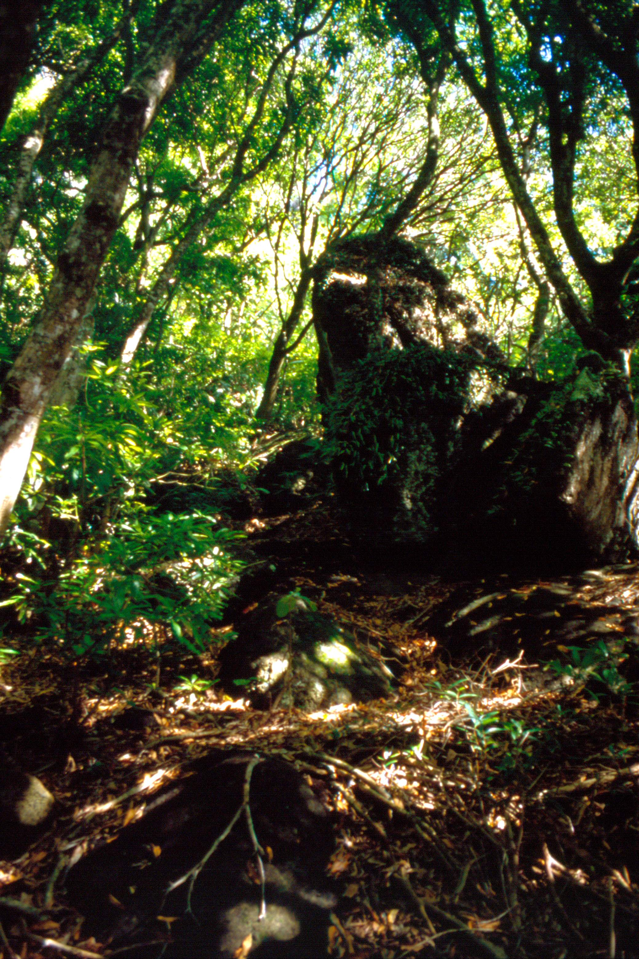 Remains of the original vegetation near Garnets Ridge, Pitcairn Island